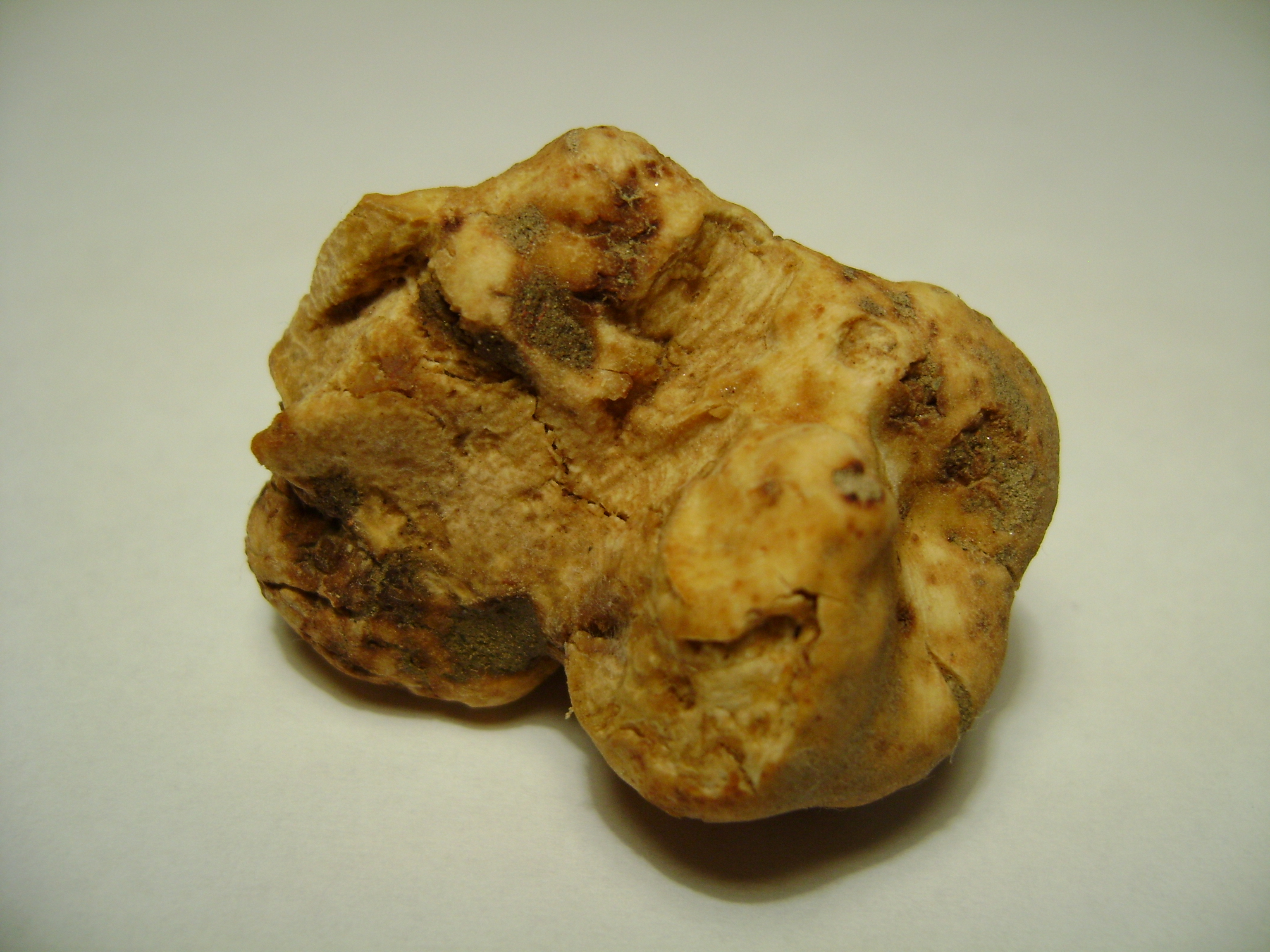 Tuber magnatum (white truffle of Alba)